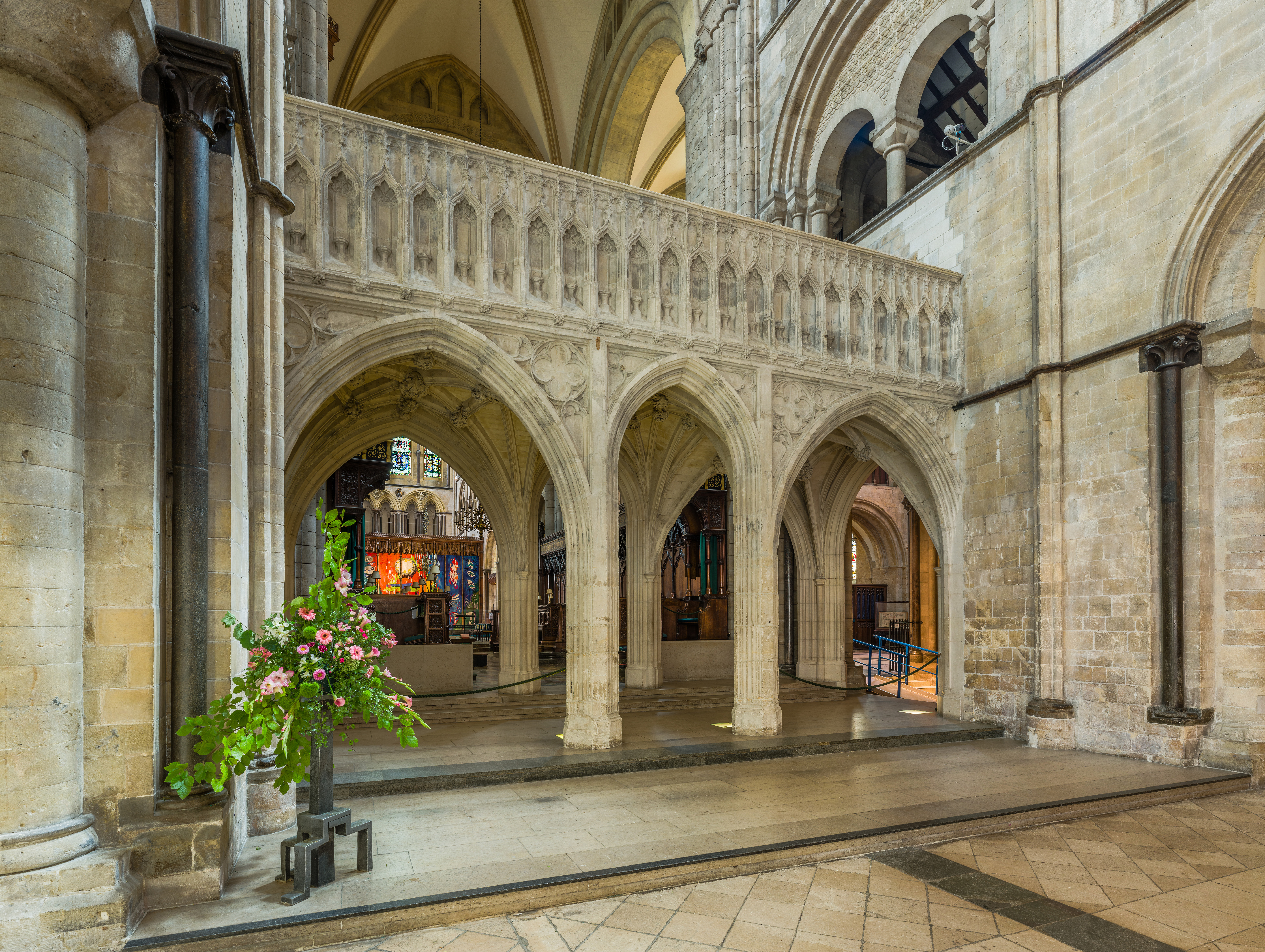 The north transept of Chichester Cathedral in West Sussex, England.